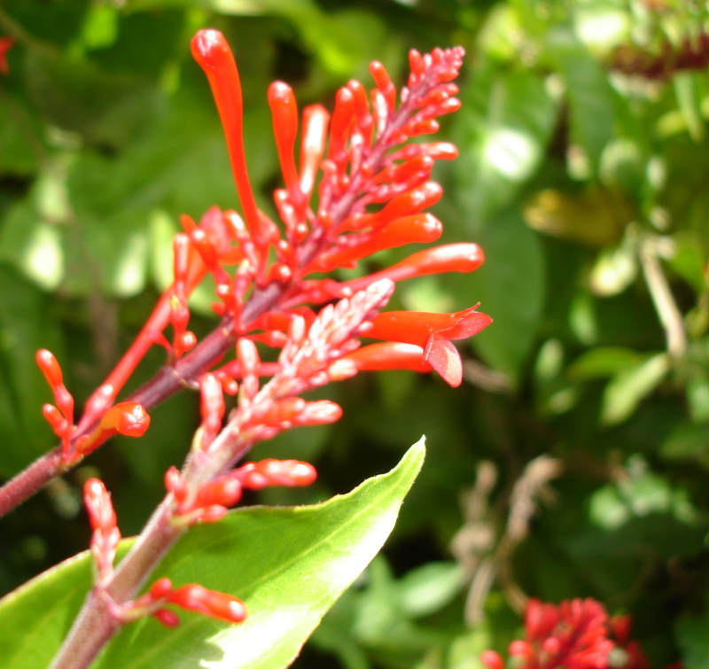 Flowers before Difference of Gaussians filter application